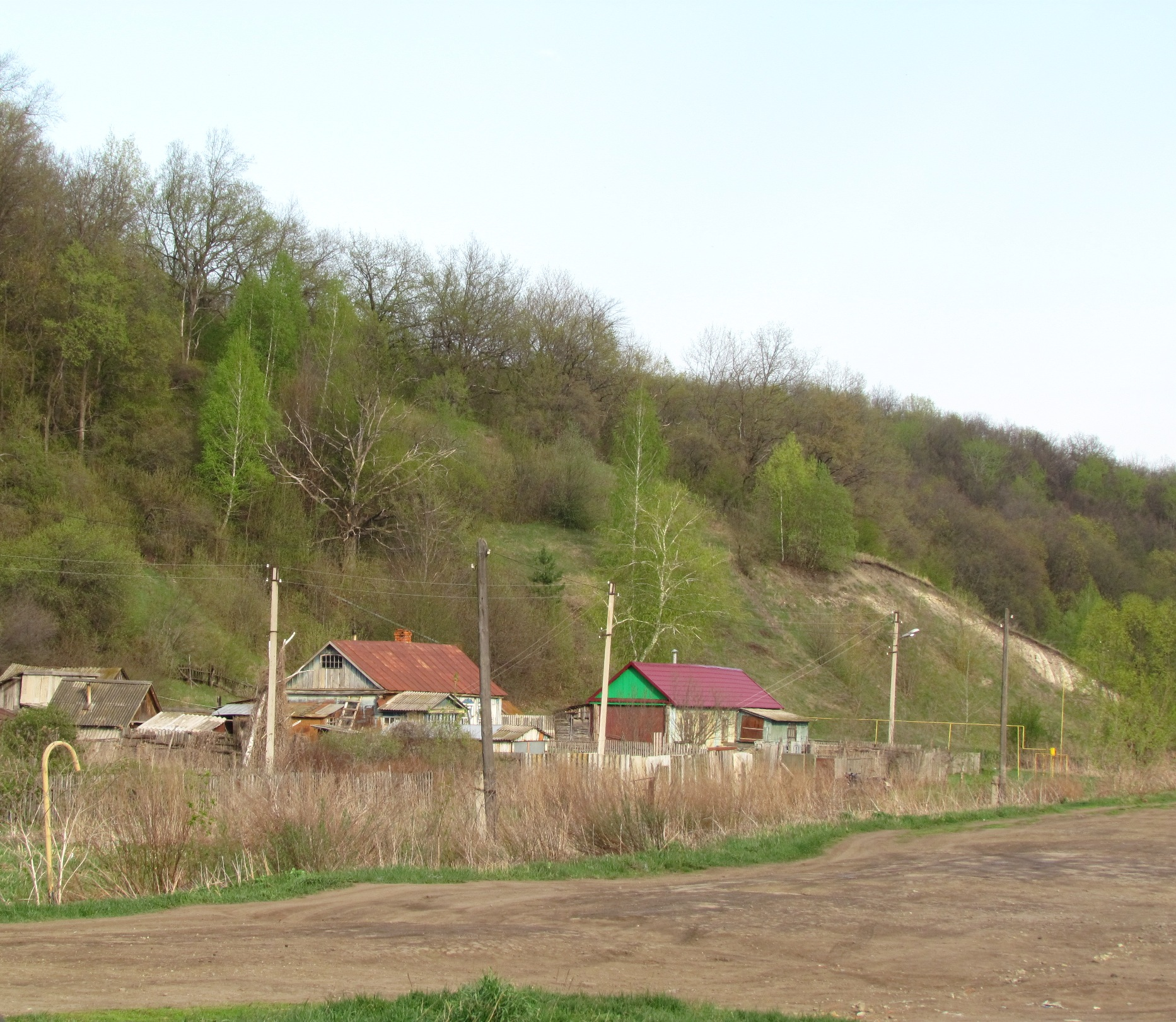 Zubrilovo (Tamala) houses